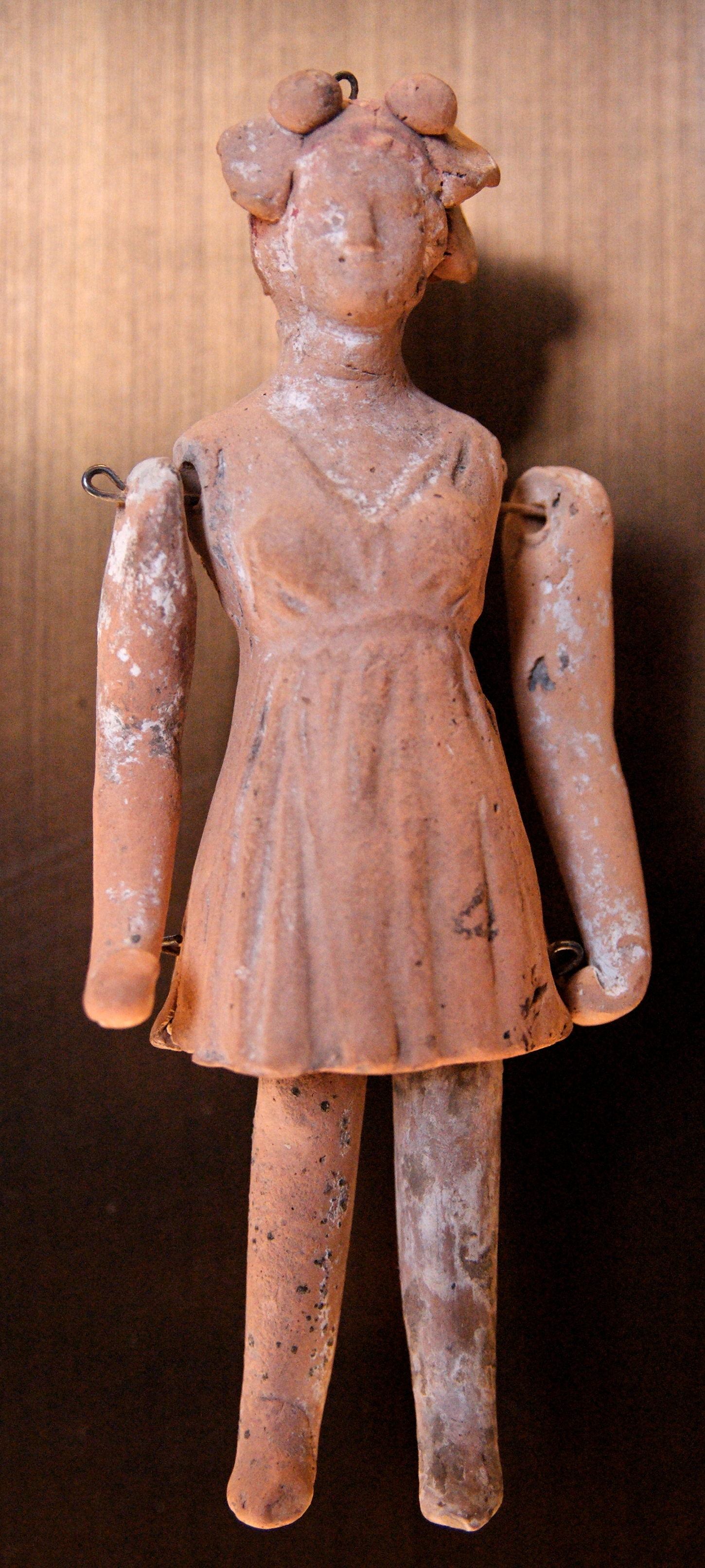 Doll. Terracotta, made in Tarentium (?), 3rd century BC.